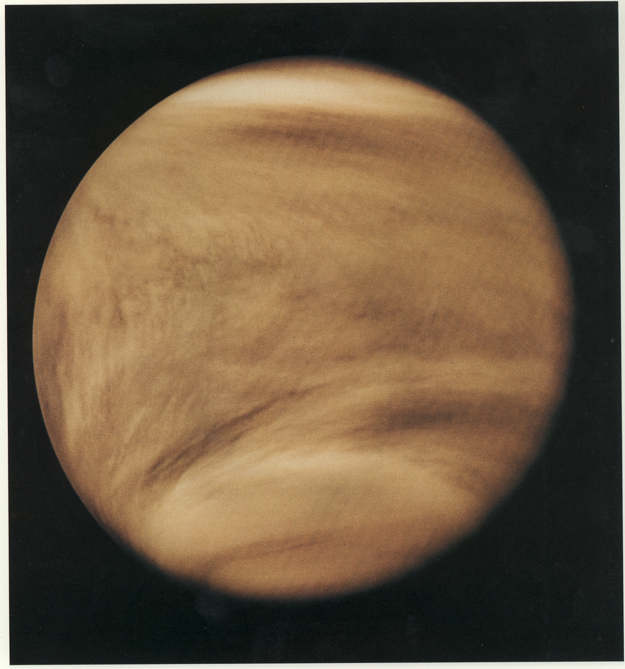 Orginal capiton with the picture: Ultraviolet image of Venus' clouds as seen by the Pioneer Venus Orbiter